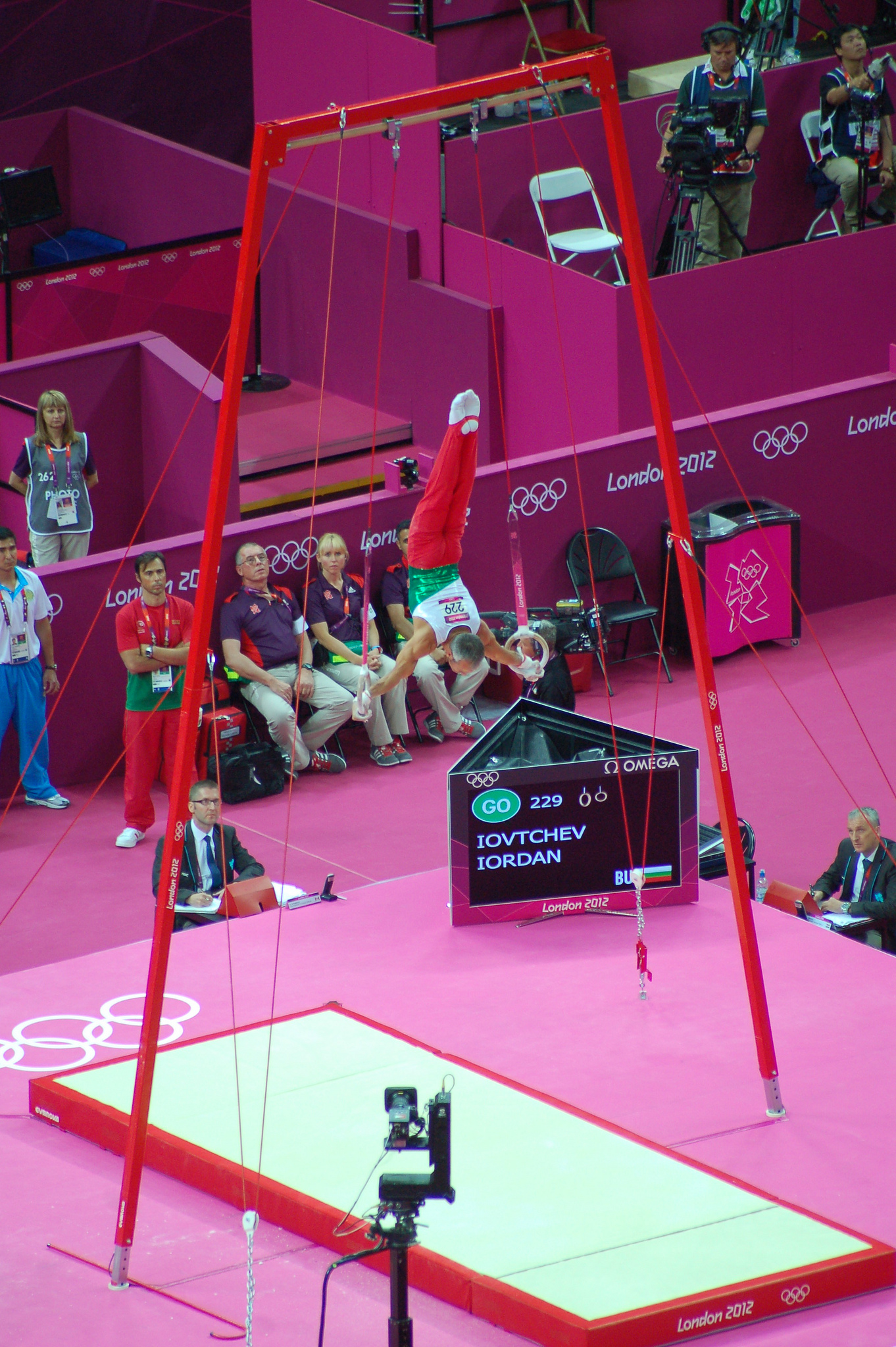 London Olympic 2012 - Artistic Gymnastics Mens' Qualifiers - o2